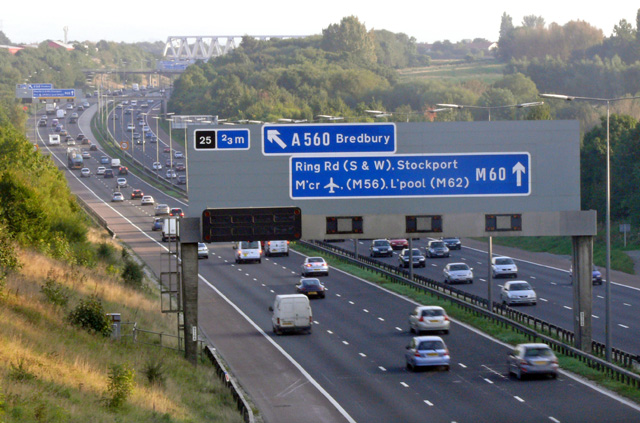 The M60 motorway passing Denton and approaching Bredbury, in Greater Manchester, England.